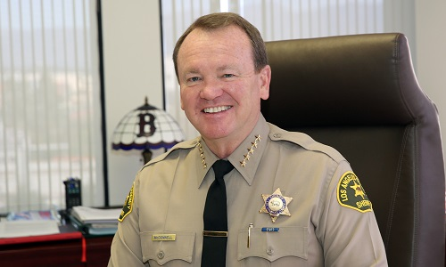 Jim McDonnell